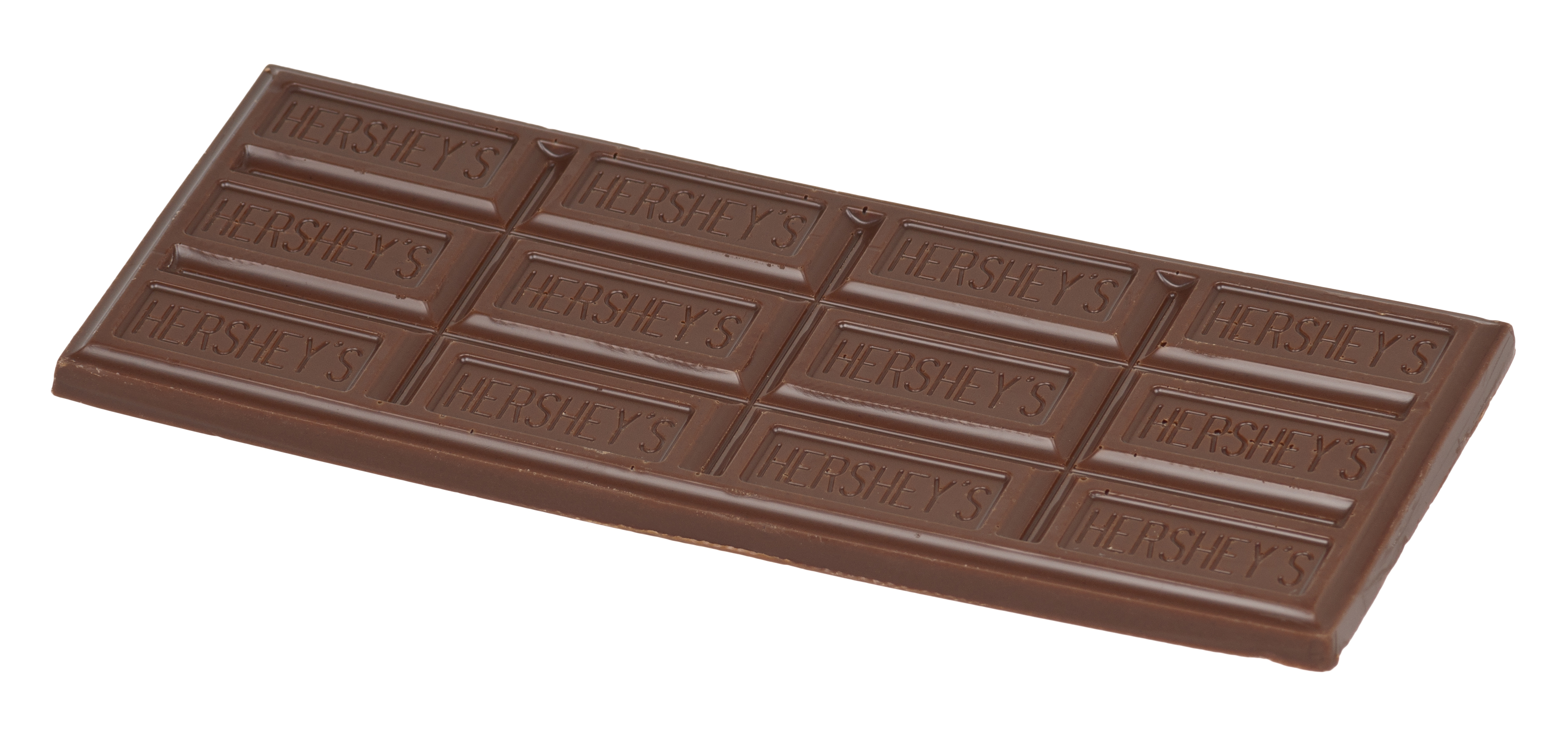 A regular Hershey bar, out of the package.